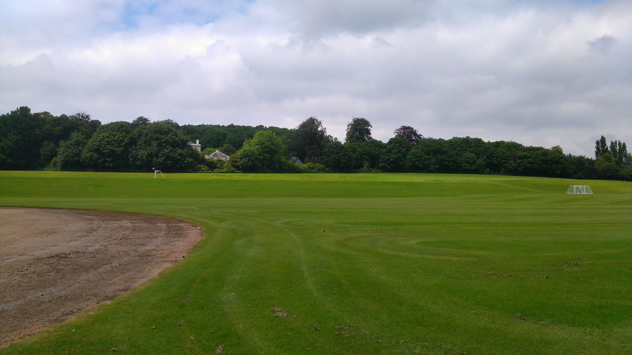 Section of the playing fields at Carlton le Willows Academy, Nottinghamshire, England, UK.